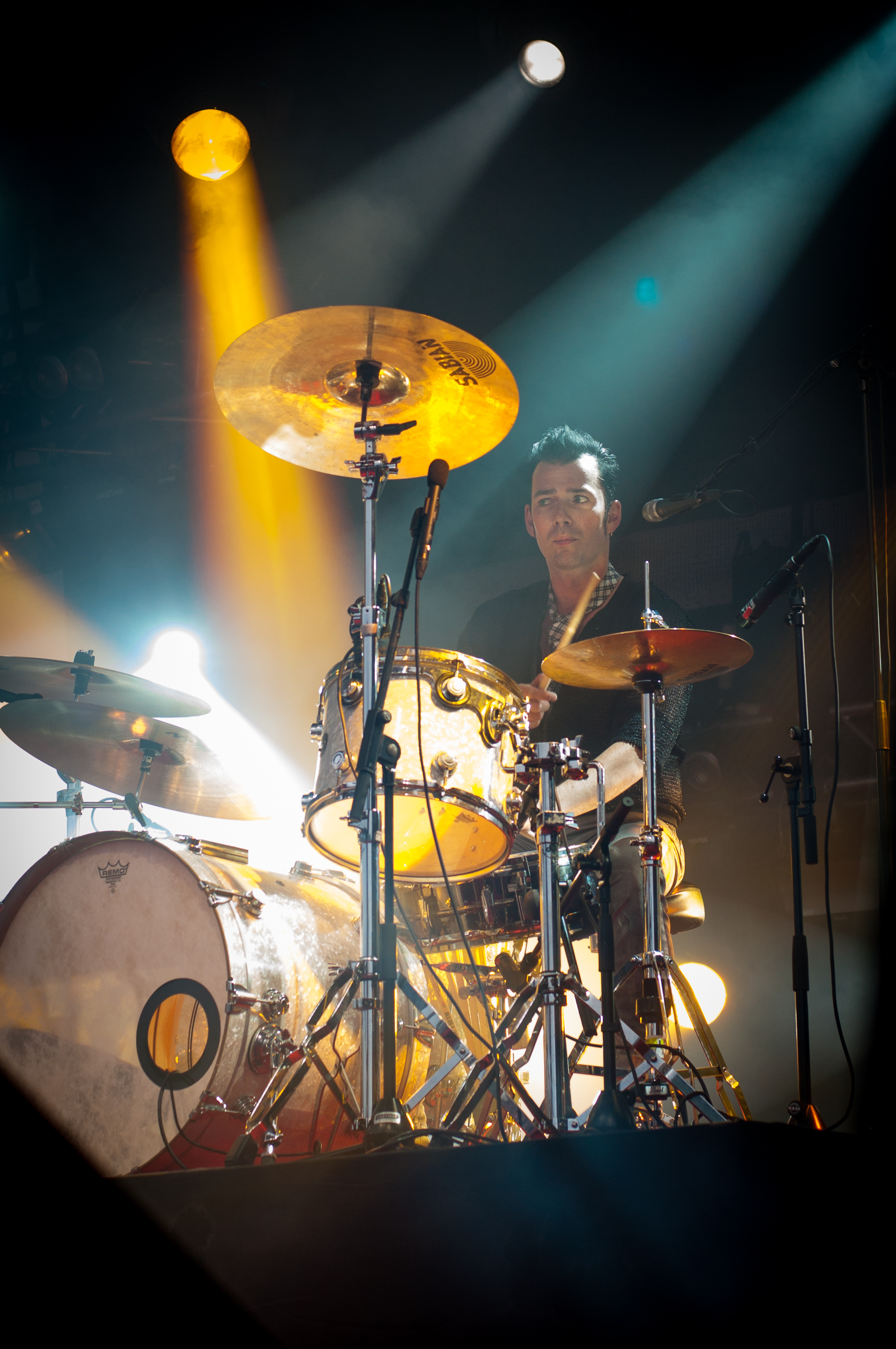 Danish drummer Laust Sonne of D-A-D performing at the 2012 Ilosaarirock festival in Joensuu, Finland.